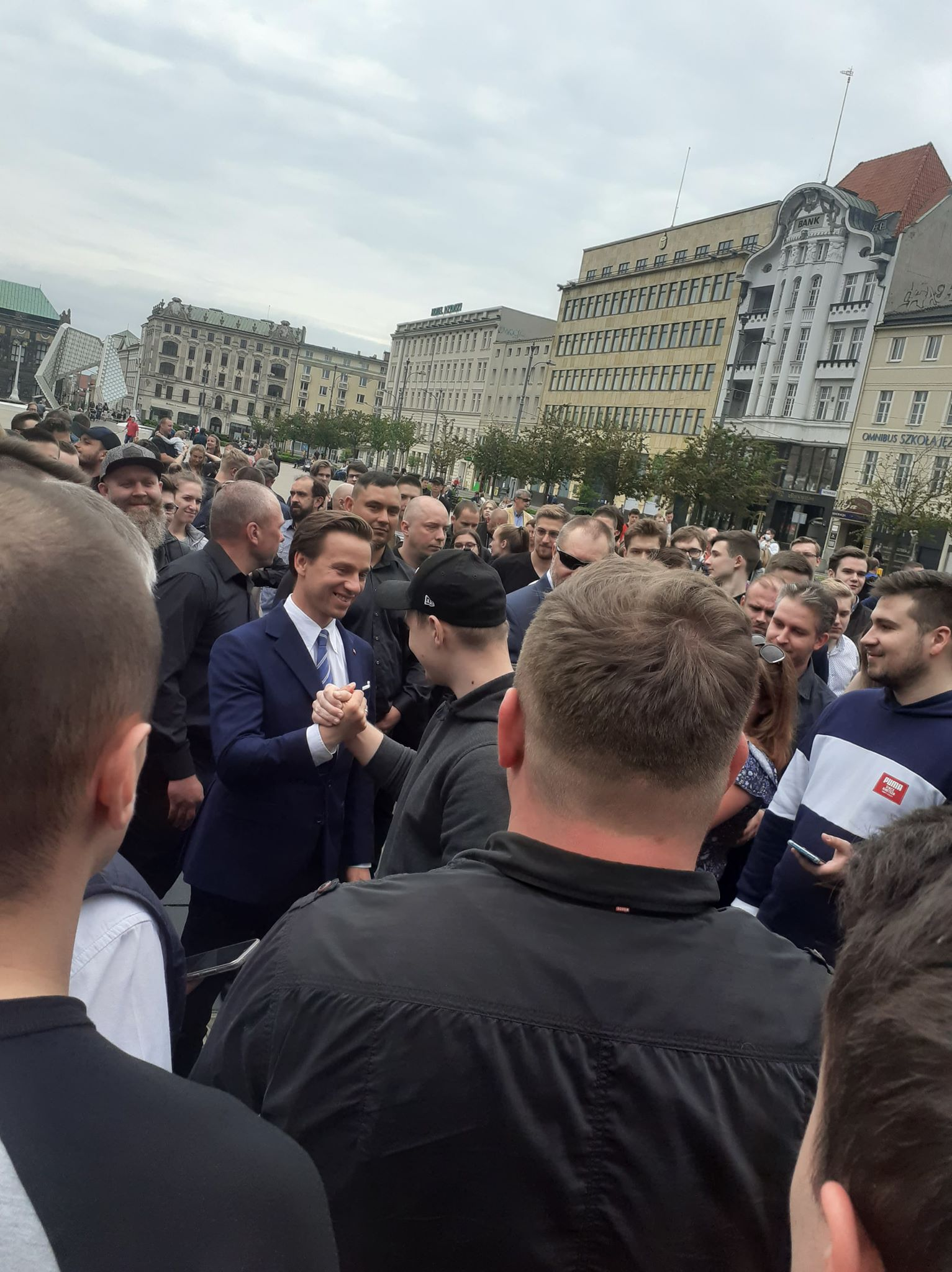 Krzysztof Bosak in Poznań (Sunday June 7 2020)